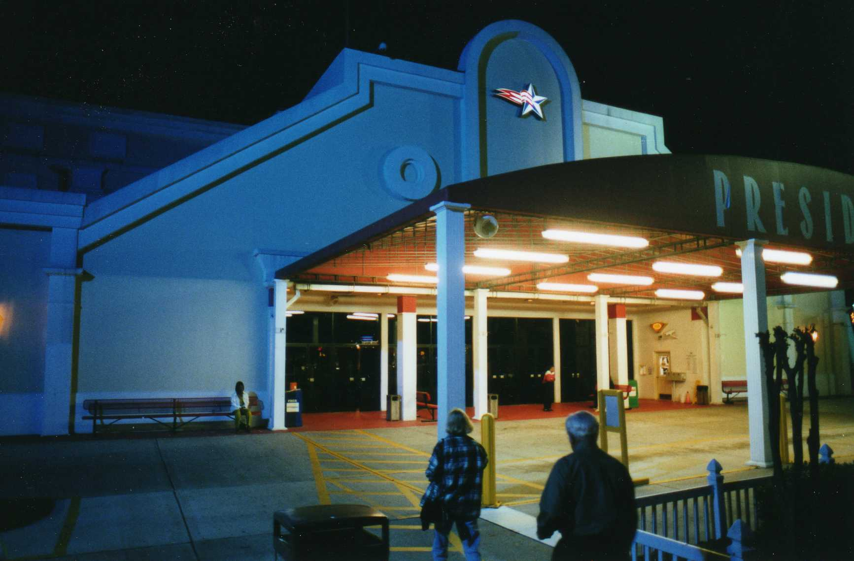 The entrance to the casino barge that was part of the President Casino Broadwater Resort.